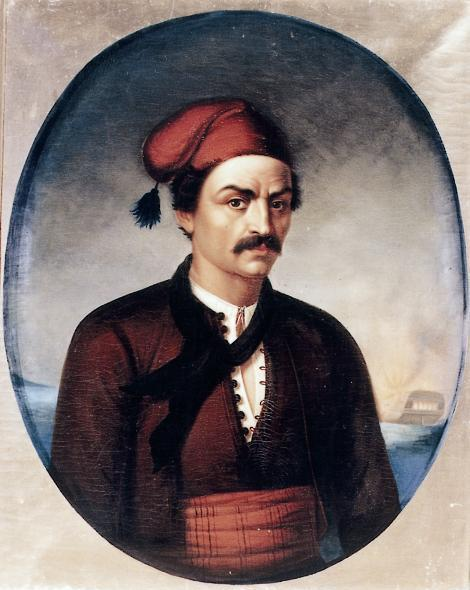 Kanaris Konstantinos (Psara 1790 – 1877 Athens) - Greek Fighter of the 1821 Revolution Κωνσταντίνος Κανάρης